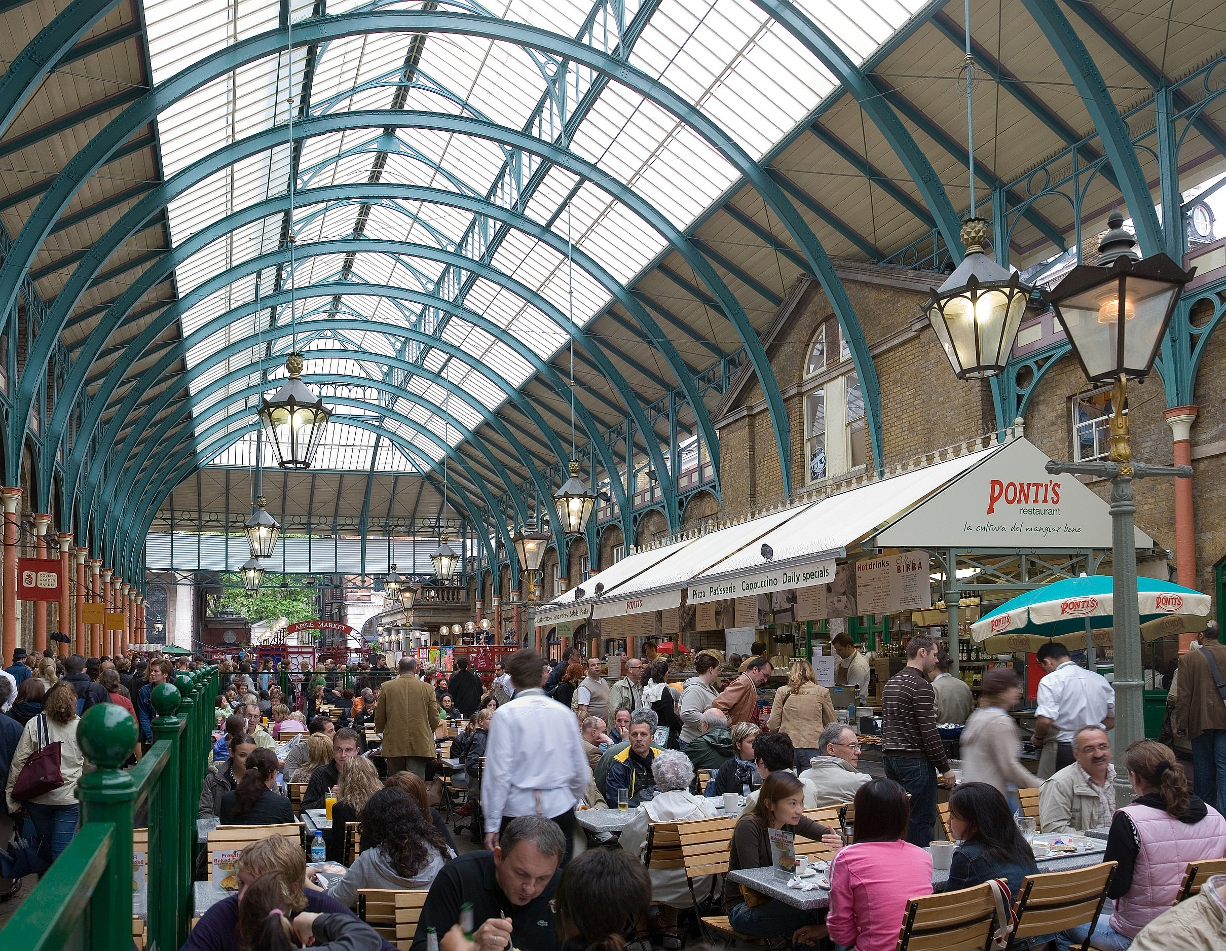 The interior of Convent Garden Market, London.